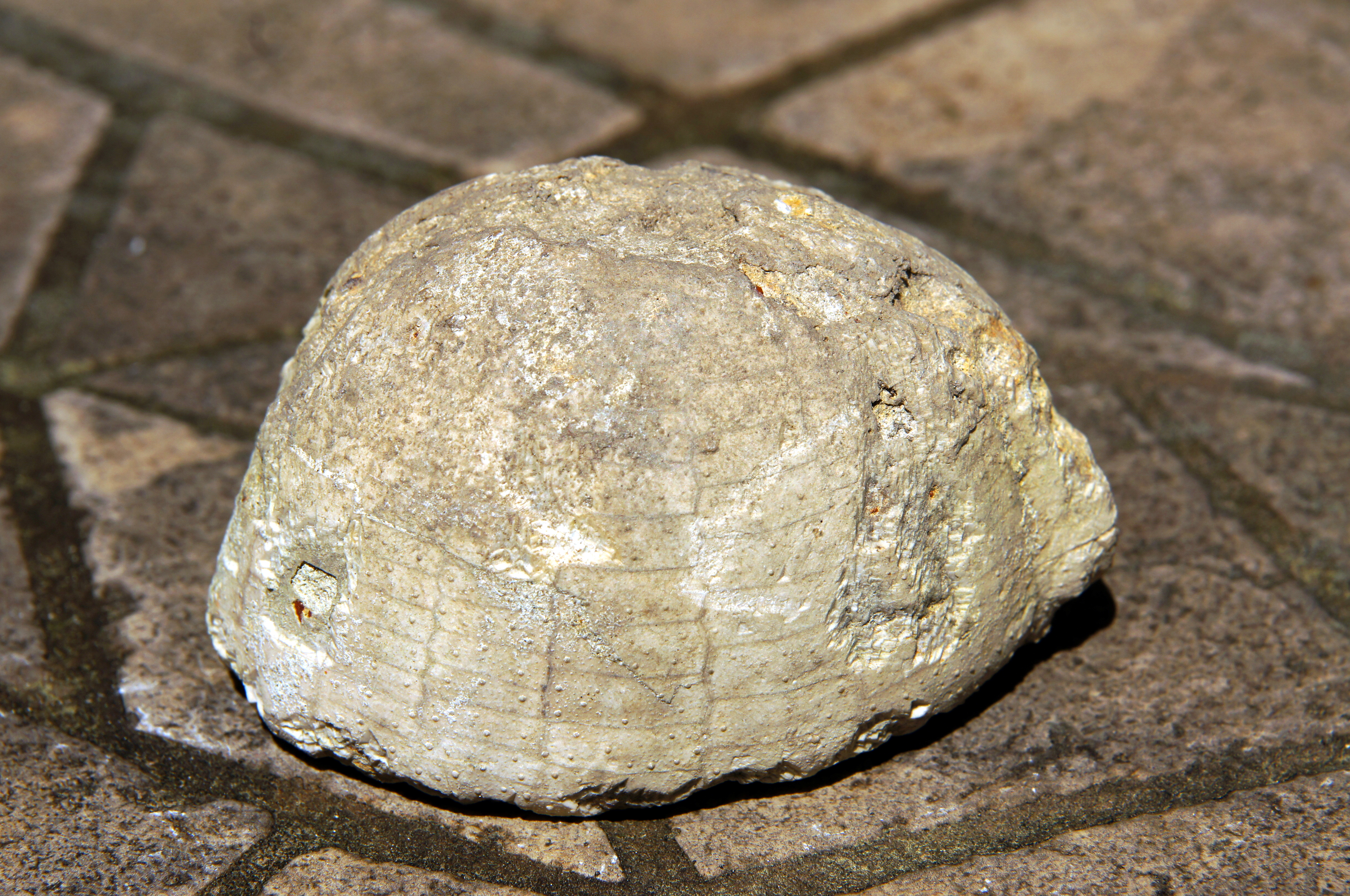 Fossilized sea urchin from the Upper Campanian of the Coesfeld area, North Rhine-Westphalia, Germany.